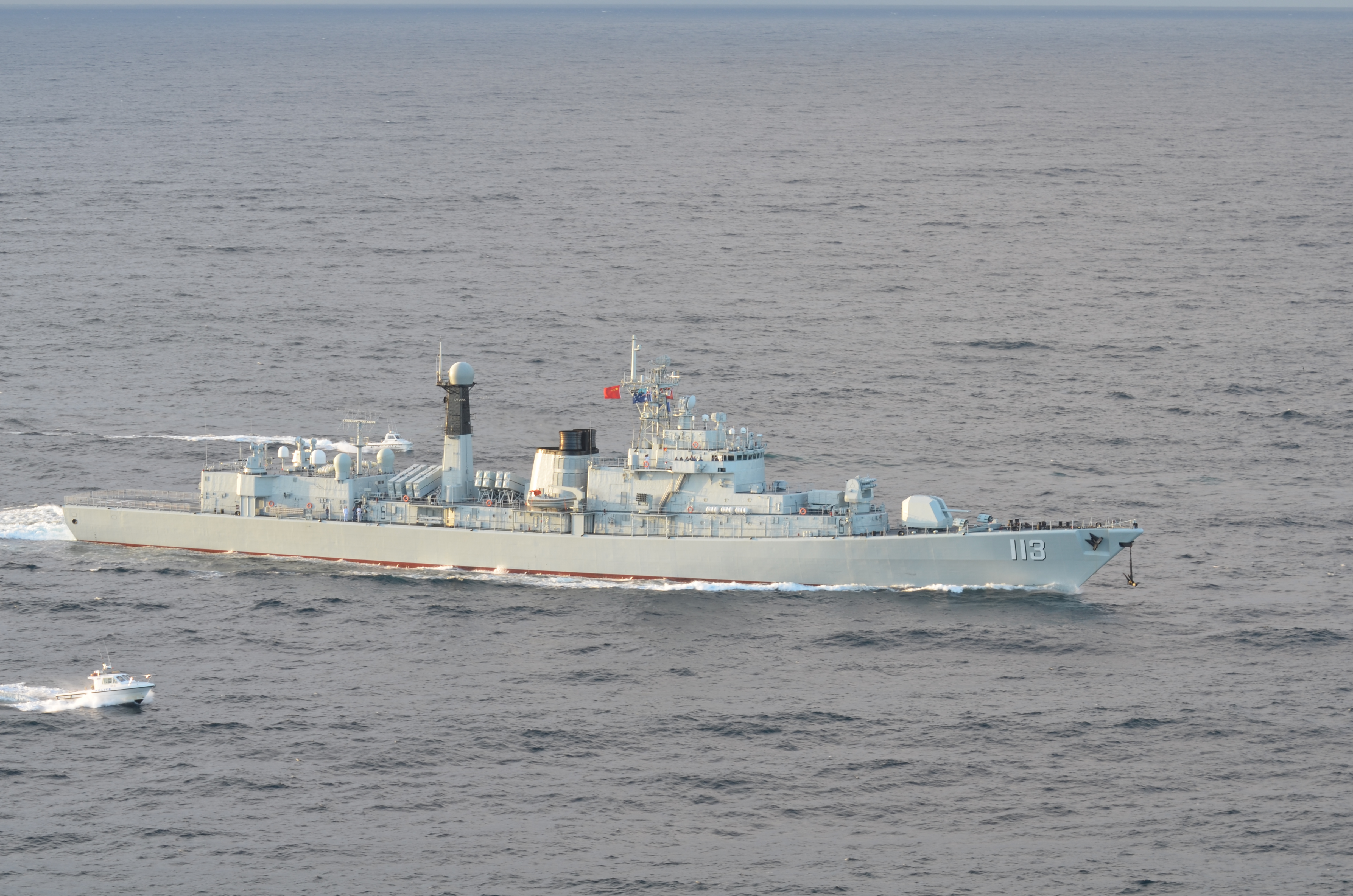 Photographs taken during day 2 of the Royal Australian Navy International Fleet Review 2013. The Chinese destroyer Qingdao entering Sydney Harbour as part of the warship fleet.